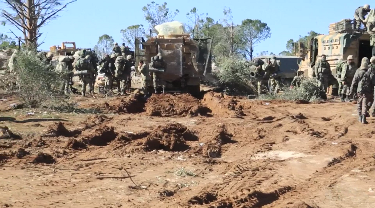 Turkish soldiers on Barsaya mountain.